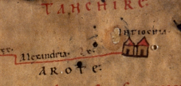 The city of Marv, Turkmenistan in the 4th century as shown on the Peutinger Map